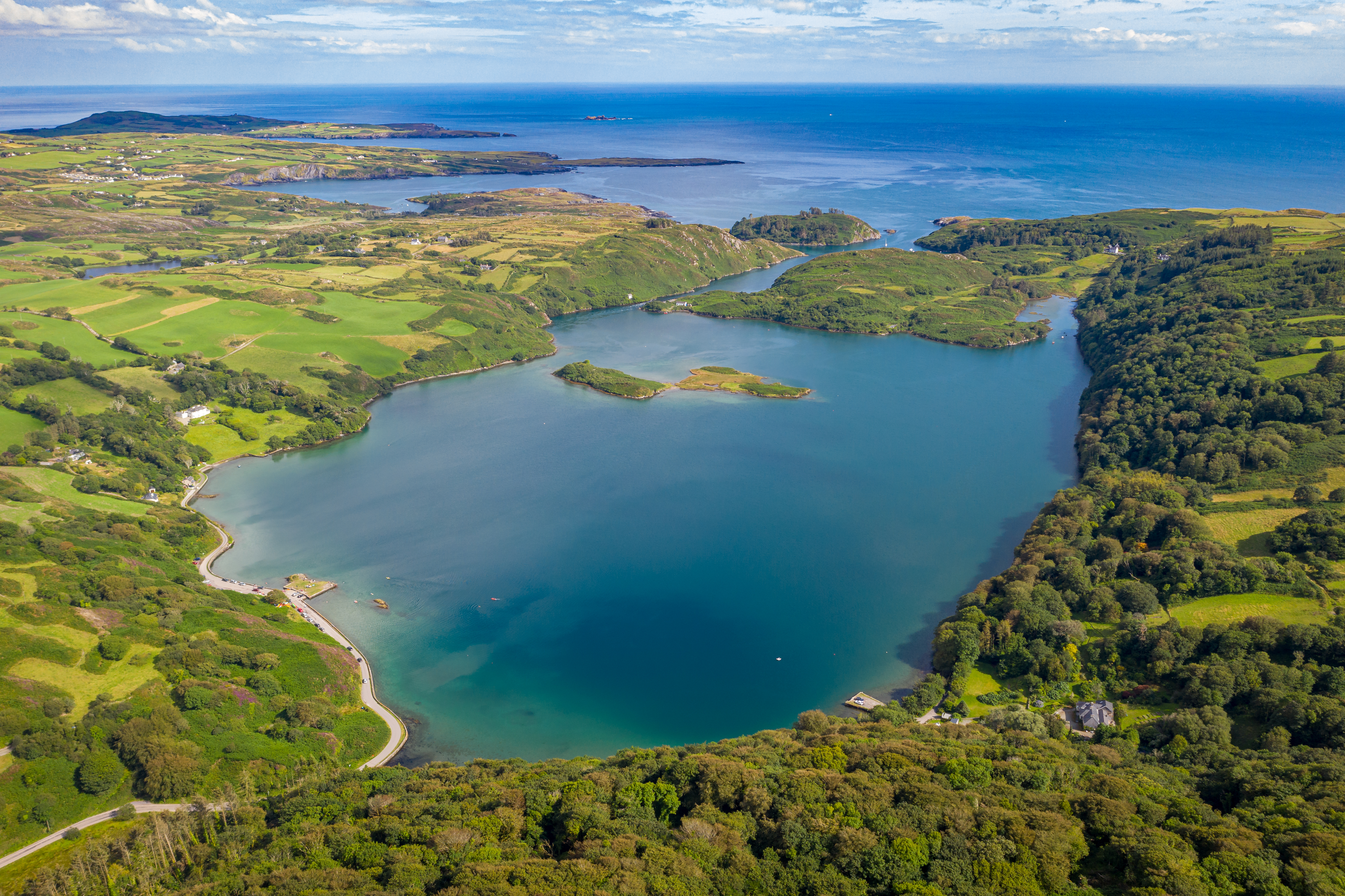 Lough Hyne, seen from a drone 100m above Knockomagh